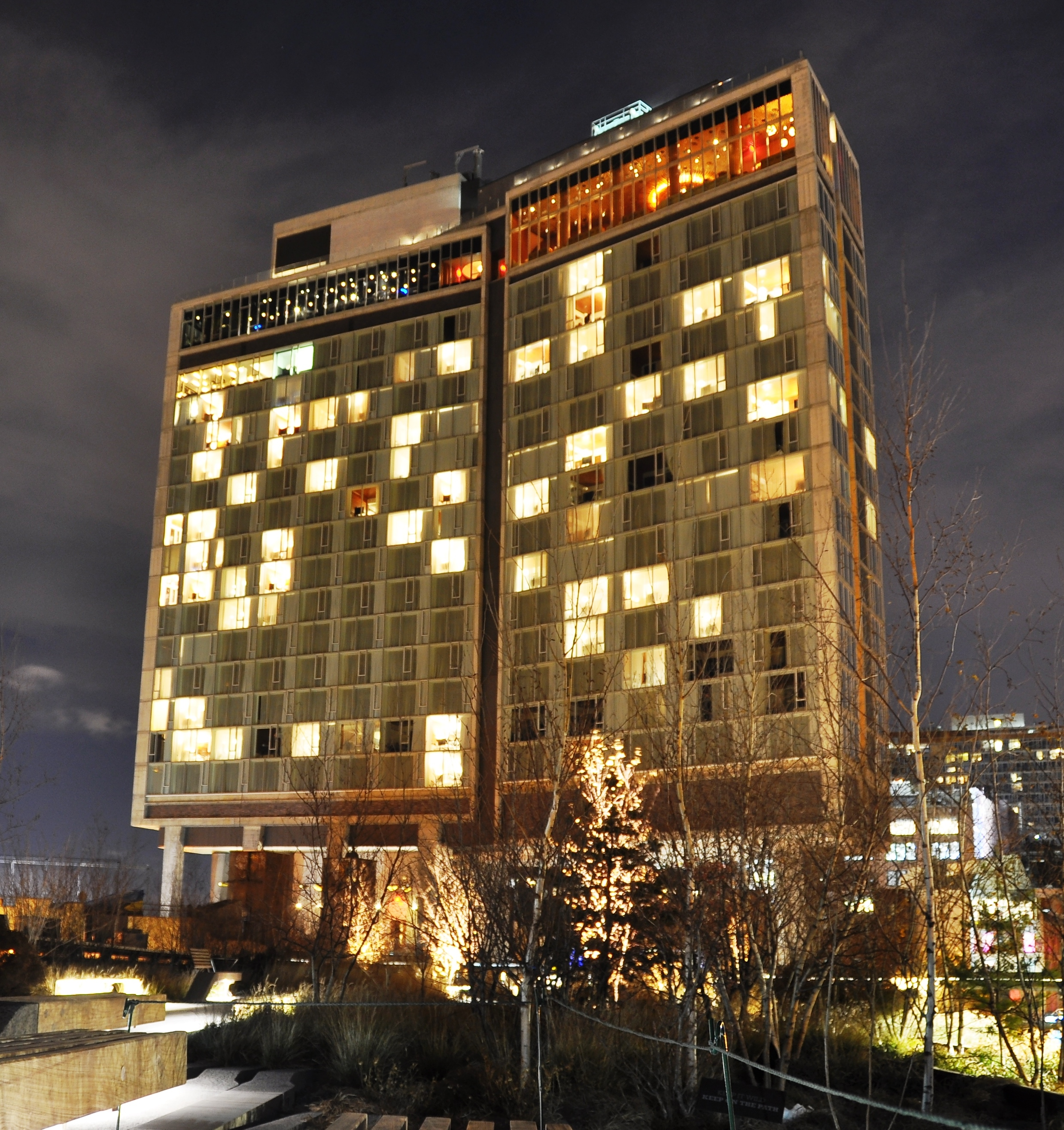 The Standard, New York